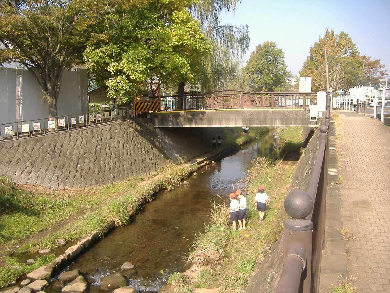 Maioka River (Yokohama, Japan)